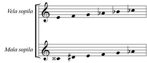 Istrian scale, key of Istrian folkmusic, two voiced playing and singing